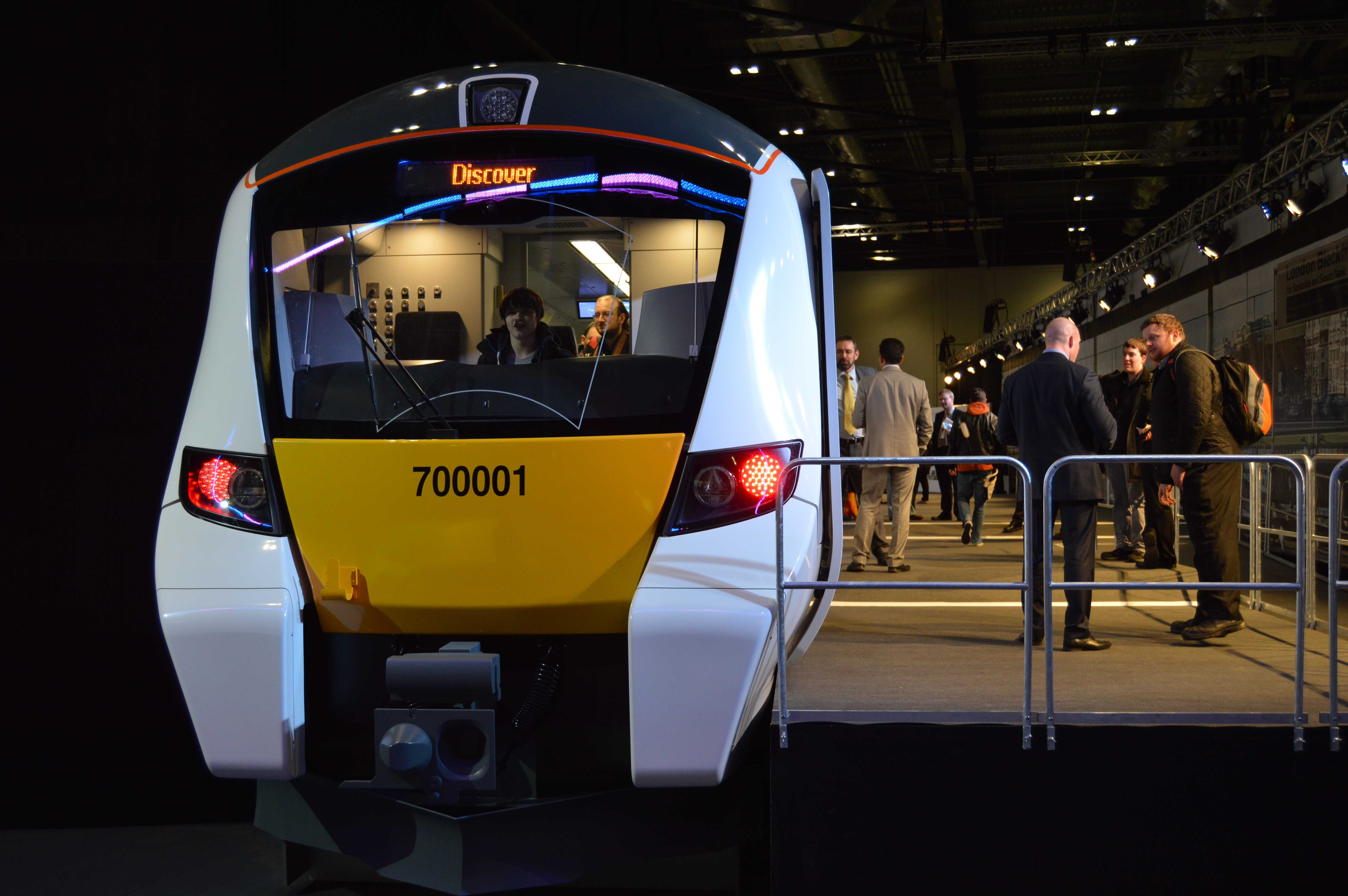 Class 700 mock up at the ExCeL Centre.